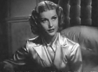 Cropped screenshot of Anita Louise from the film My Bill